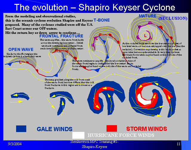 Keyser-Shapiro Cyclon model